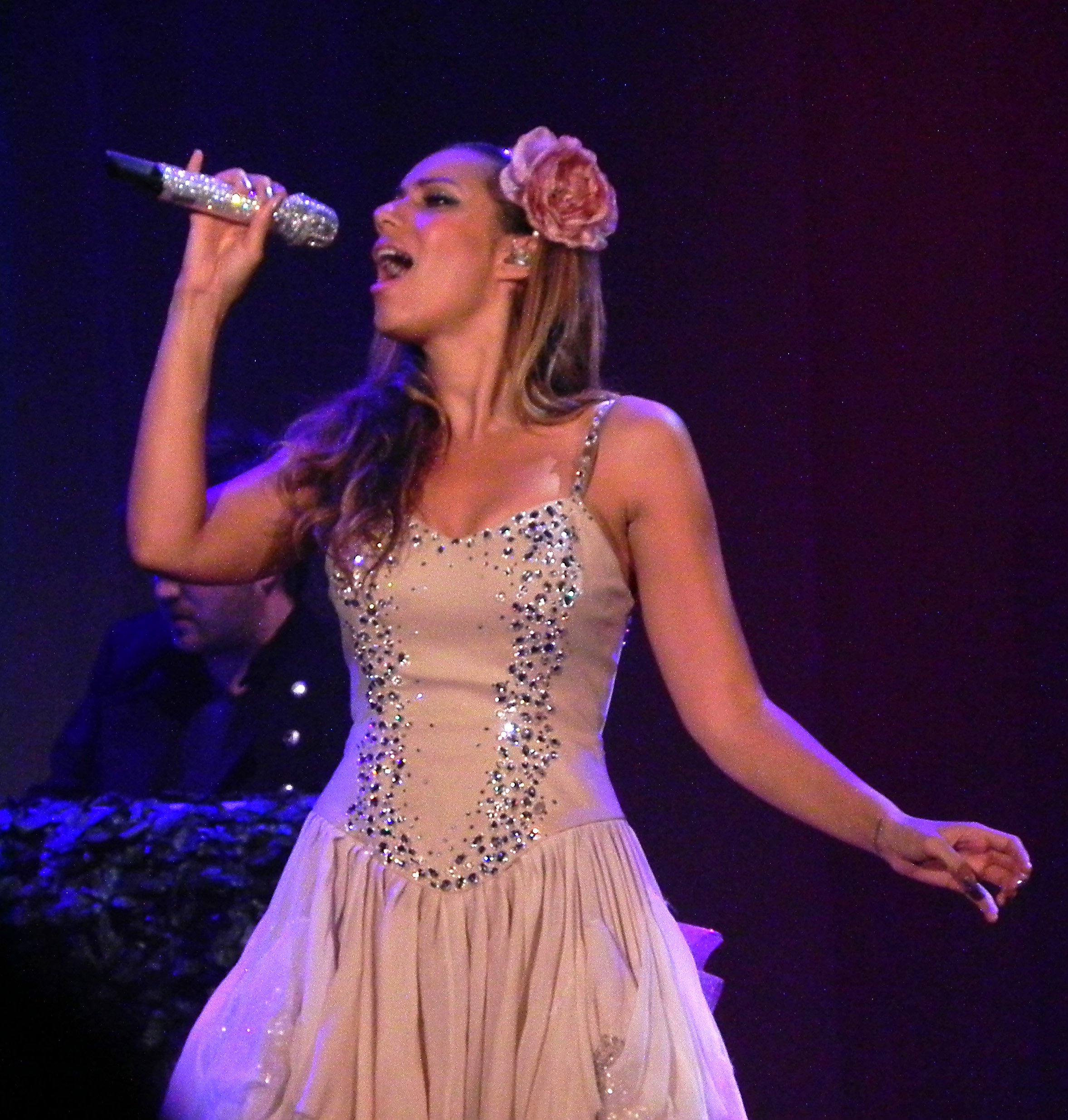 Leona Lewis performing at Nottingham Arena on 2nd June 2010.